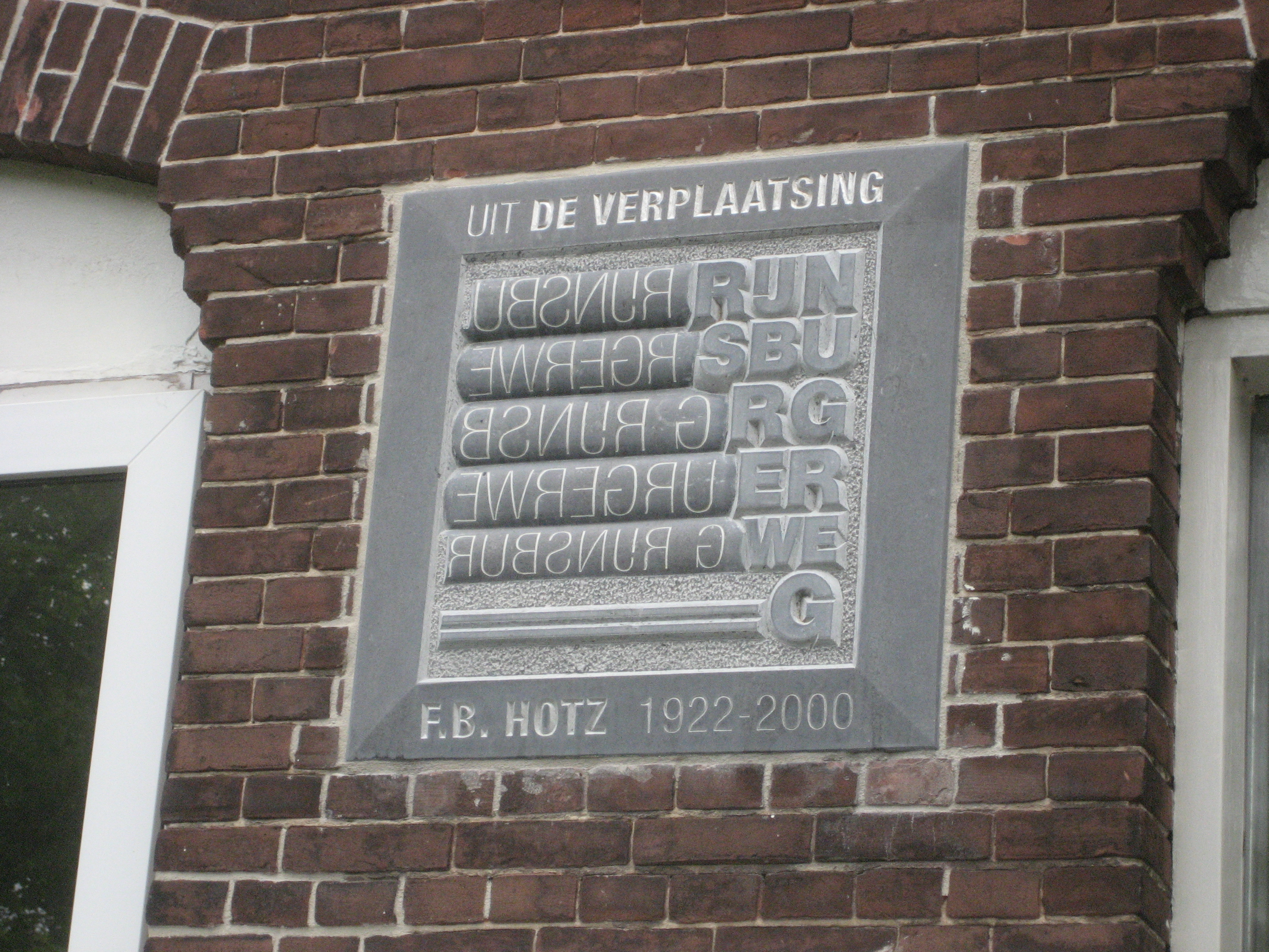 Plaque Leiden: "Uit de verplaatsing. Rijnsburgerweg. F.B. Hotz 1922-2000". Rijnsburgerweg 75, Leiden. Sculptor: Marc de Groot